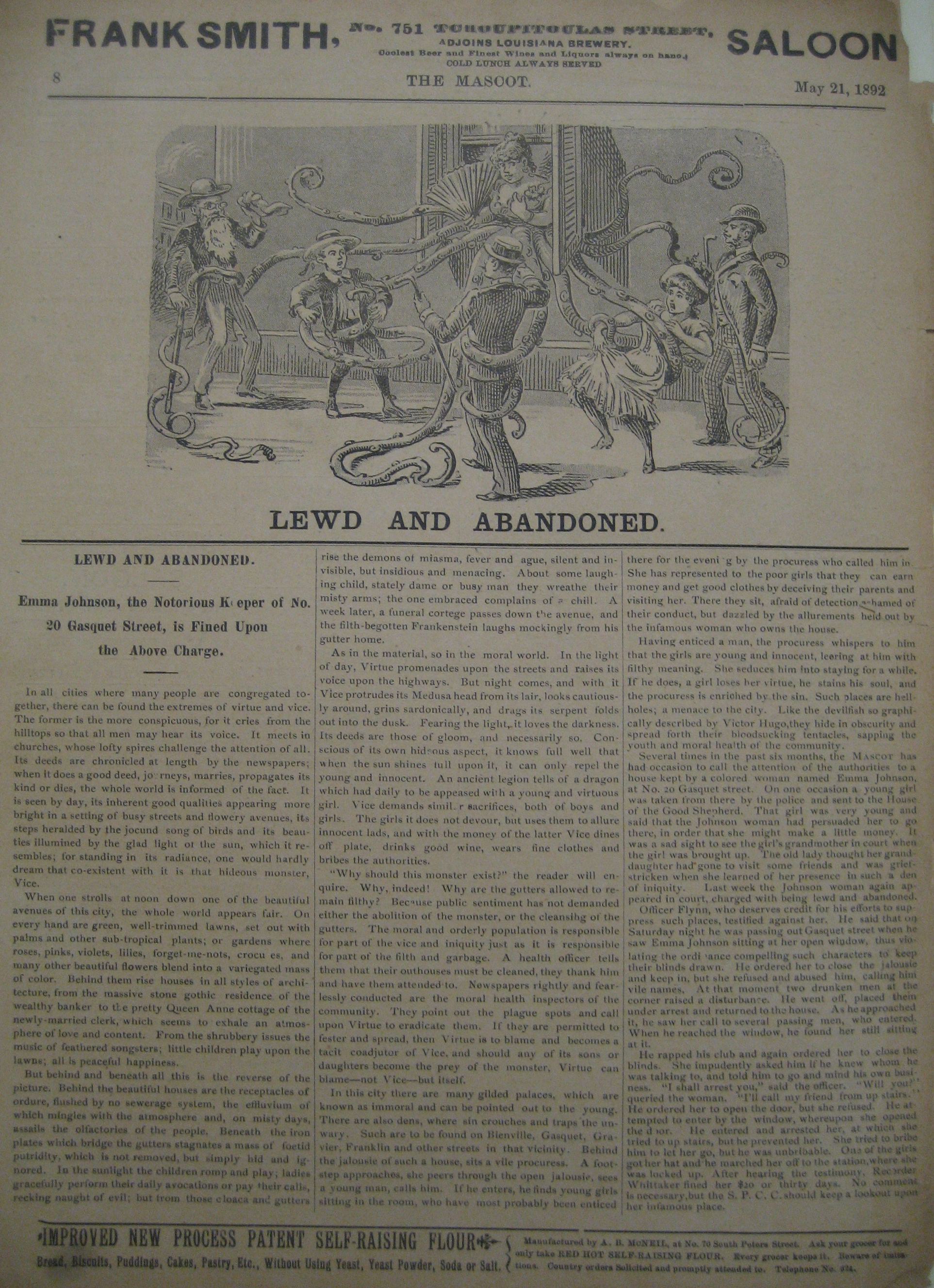 "Lewd and Abandoned". Article about and caricature of notorious New Orleans prostitute Emma Johnson, from "The Mascot", 21 May 1892.